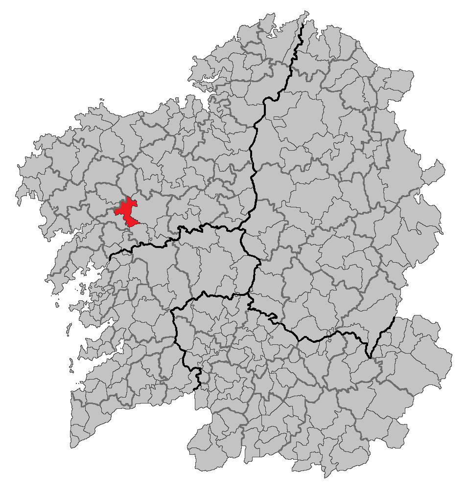 Location map of Ames, A Coruña, Galicia